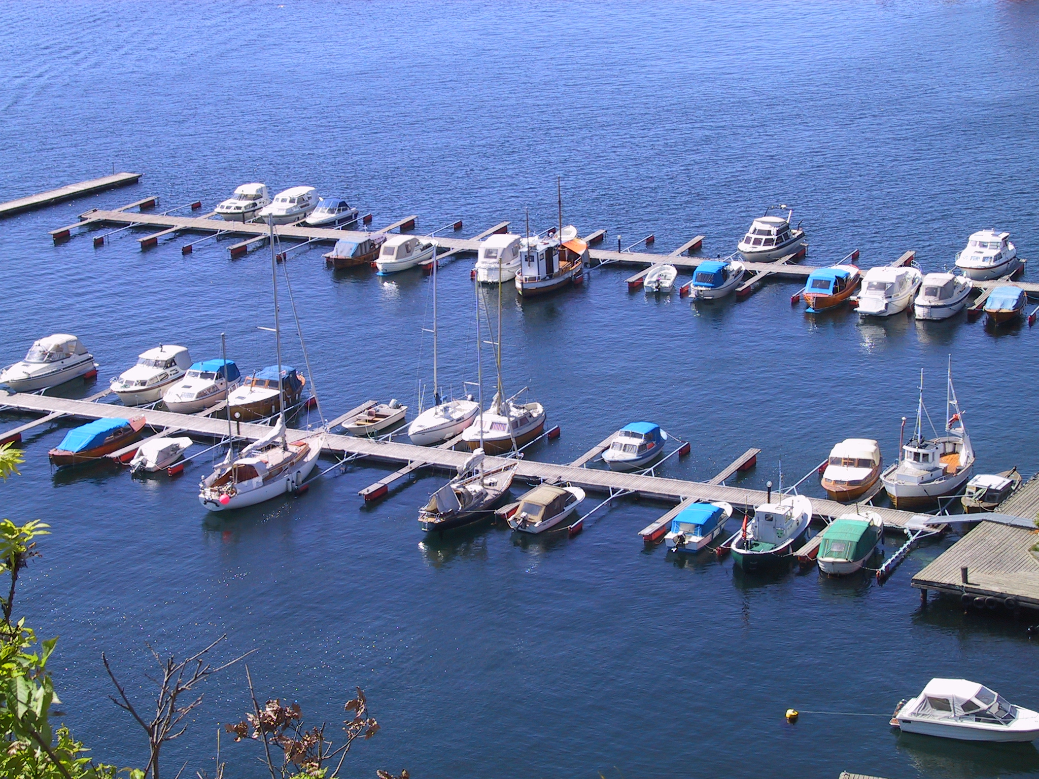 Harbour for small boats in Arendal, Norway.